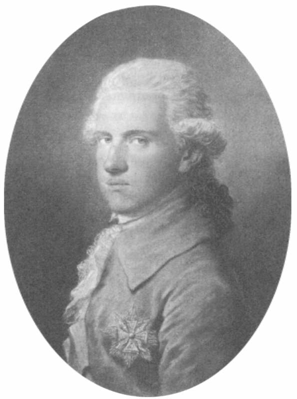 Portrait of Karl August, Grand Duke of Saxe-Weimar-Eisenach (1757-1828)